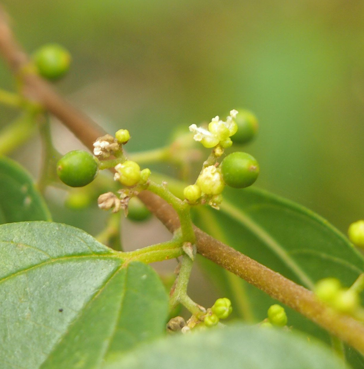 Trema tomentosa flowers